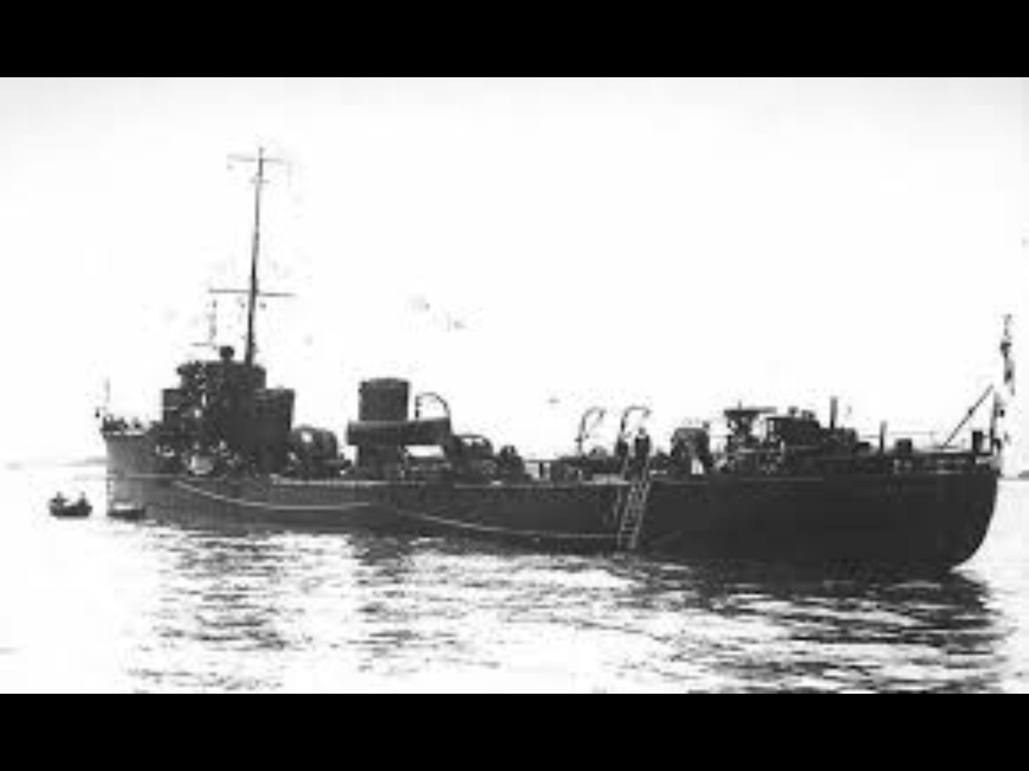 Picture of Torpedo Boat in WWI. Identified as HMS Ettrick (1903) in other sites on the internet.